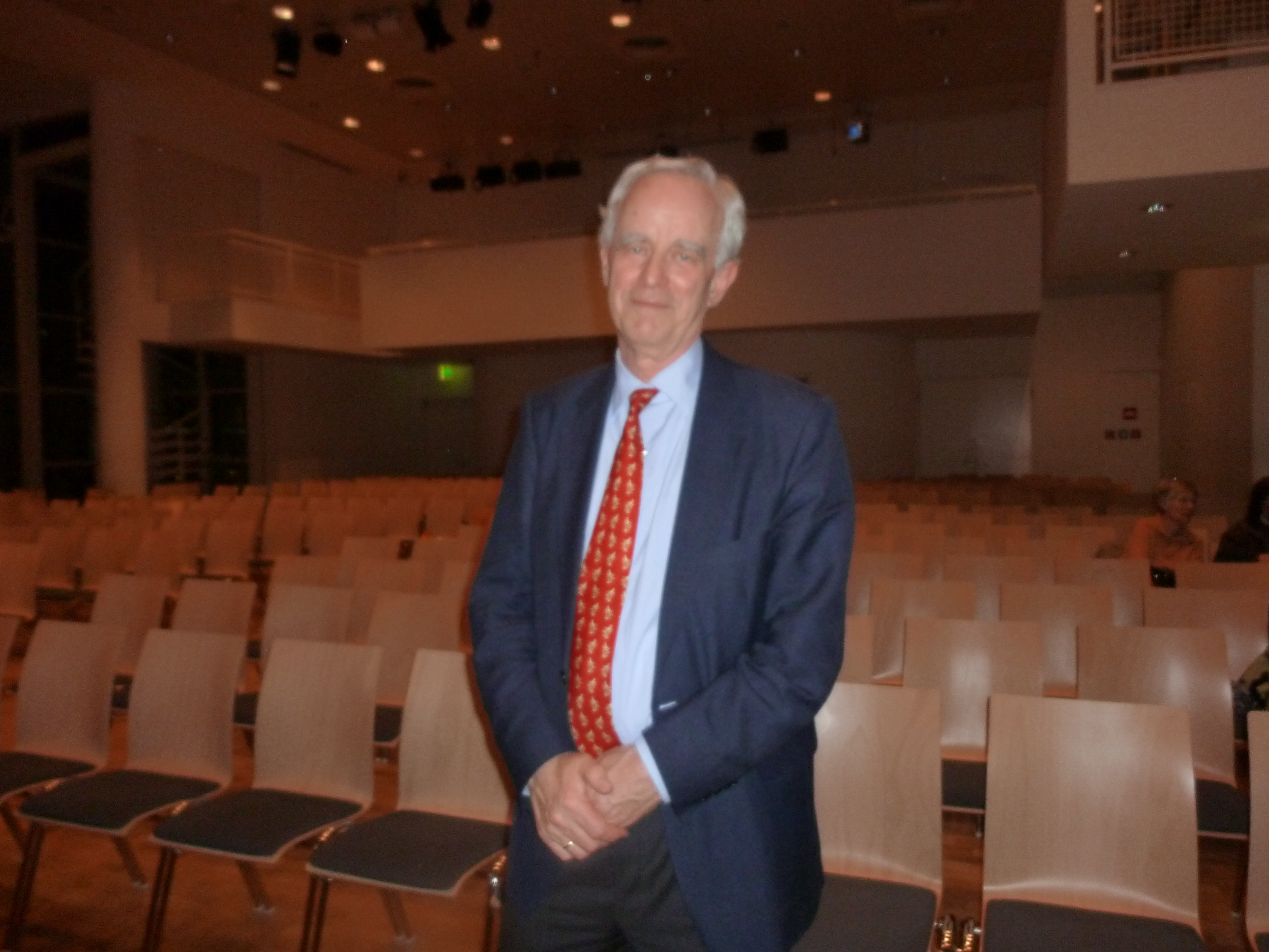 Dr. Pim van Lommel: Dutch cardiologist, author of the book "Eindeloos Bewustzijn". The photo depicts him after a speech in Ulm (at the Stadthalle) at 22nd February 2012 when almost all guests have left. Pim van Lommel has given permission to shoot the photo.